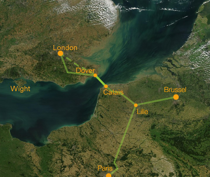 Satellite photo of the Strait of Dover (English Channel).